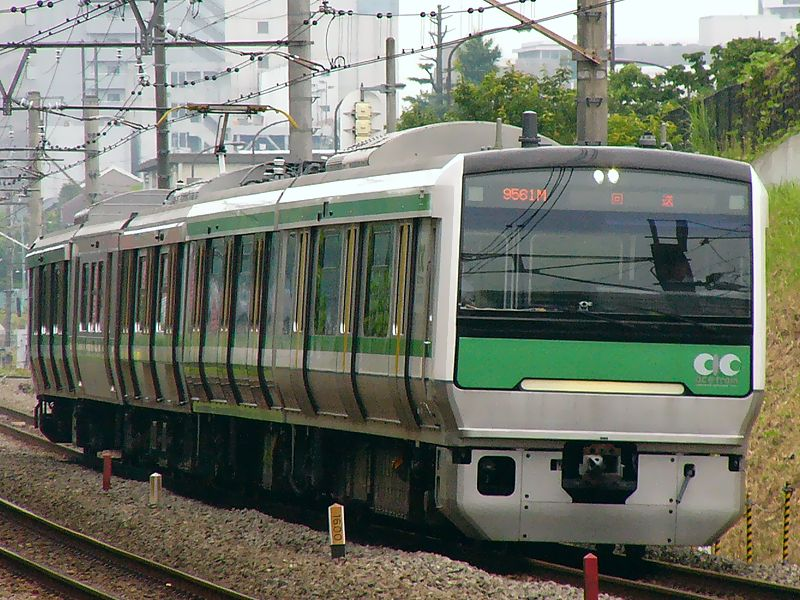 JR East E993 series "AC Train" experimental EMU on a test run near Nishi-Kokubunji Station on the Chuo Line